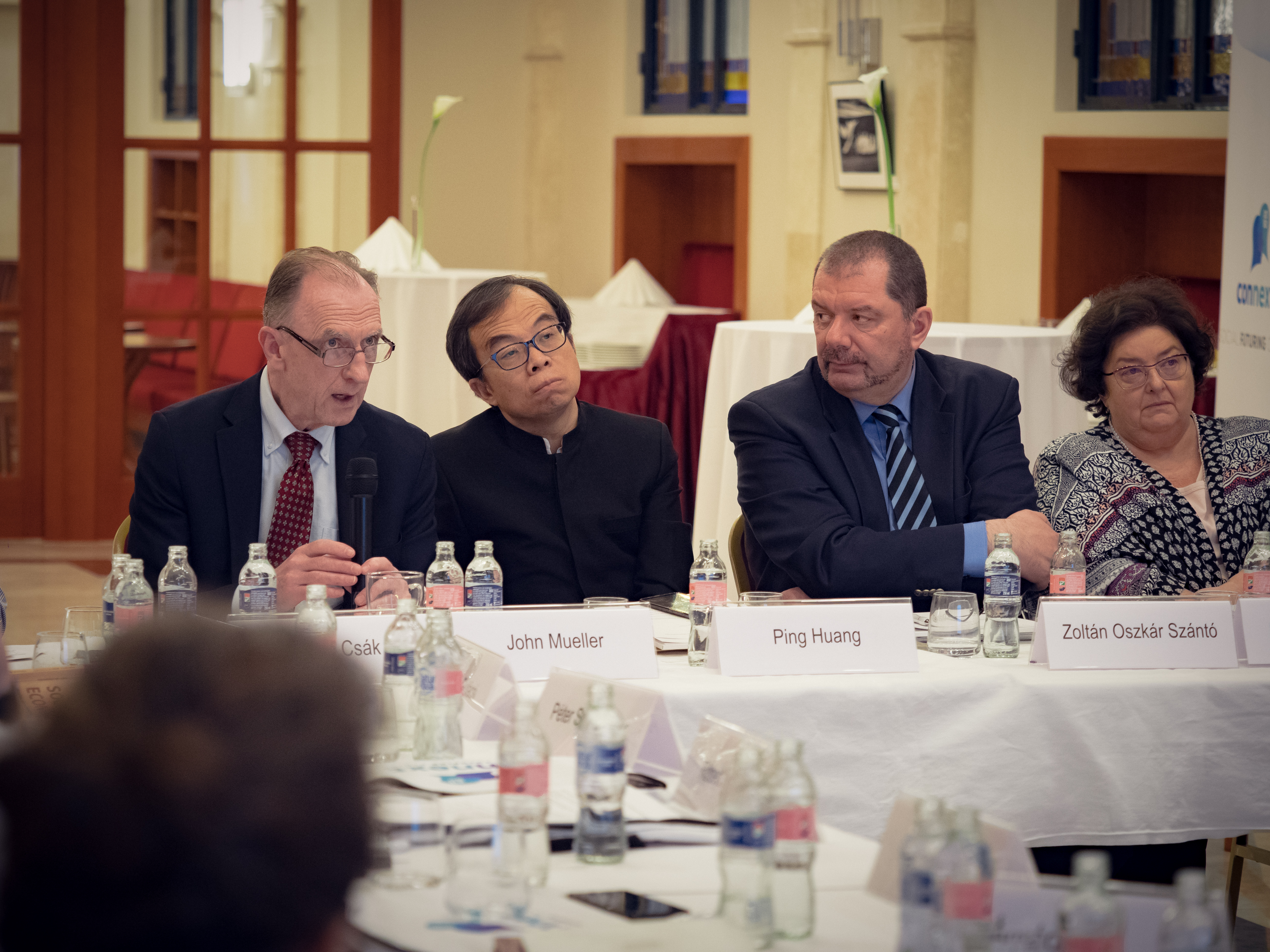 Workshop of the International research centre 28th of February 2019., Budapest